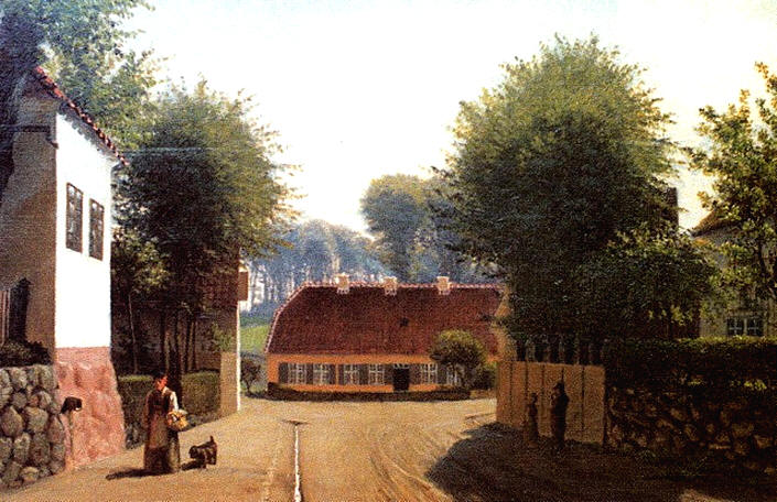 Painting of the "Rytterskole" in Gentofte north of Copenhagen, Denmark